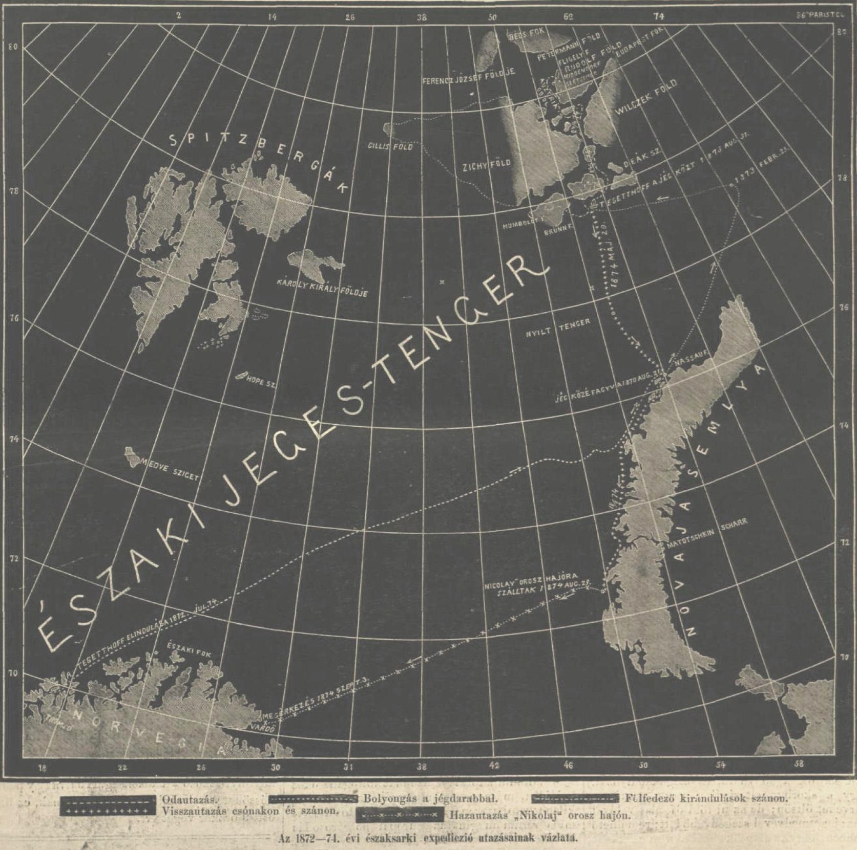 The Austro-Hungarian North Pole Expedition: The route